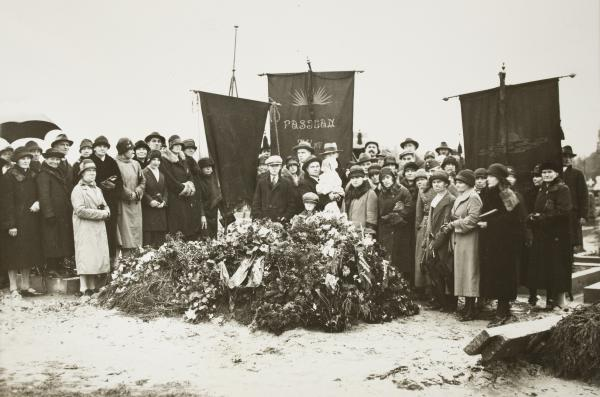 Funeral of the Finnish Member of the Parliament Rosa Sillanpää (1888-1929) in the Malmi Cemetery, Helsinki. In the middle, her spouse Nestori Aronen carrying their child.